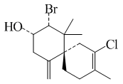 Elatol structure